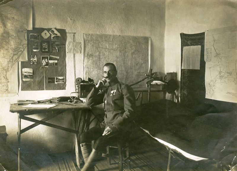 Dimitar Mustakov in the Headquarters of 9th Division at Furka.